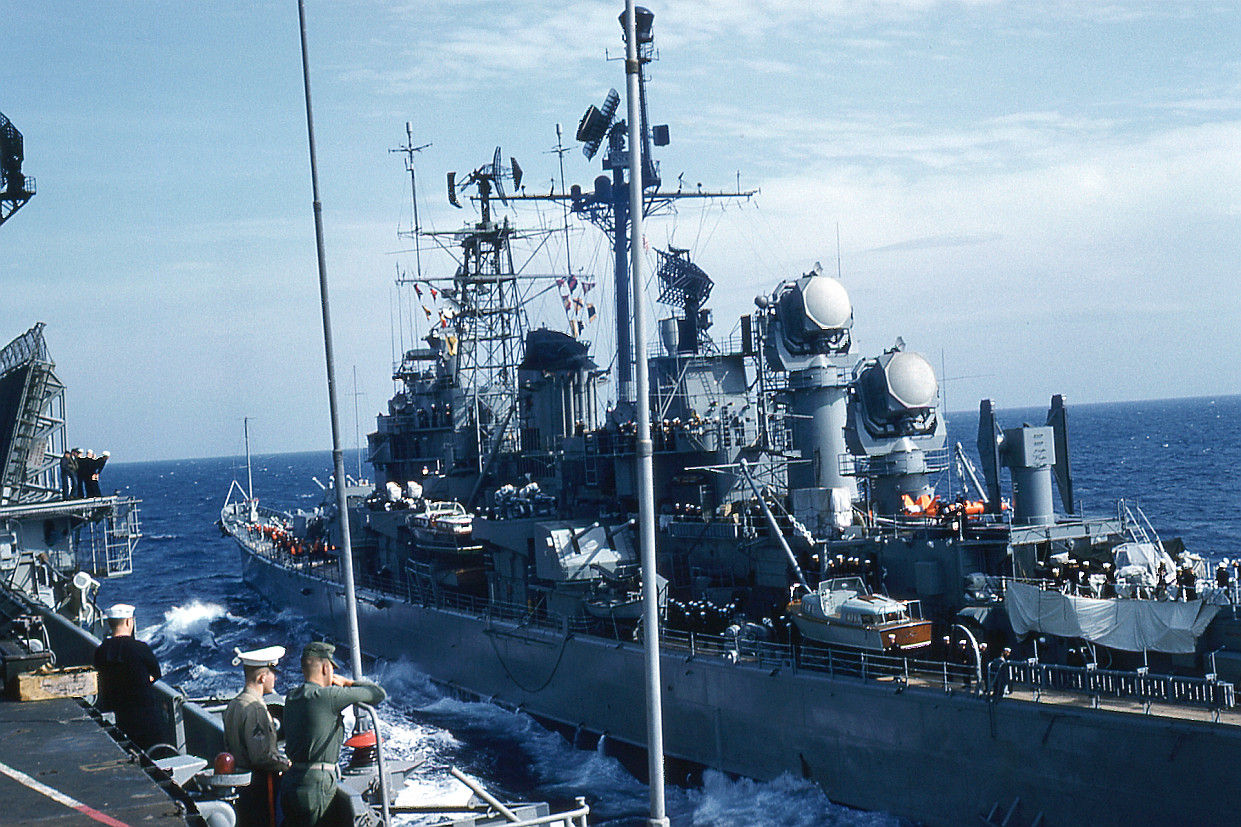 The U.S. Navy guided missile cruiser USS Boston (CAG-1) alongside the aircraft carrier USS Franklin D. Roosevelt (CVA-42) during a personnel transfer in the Mediterranean Sea, in 1962/64.